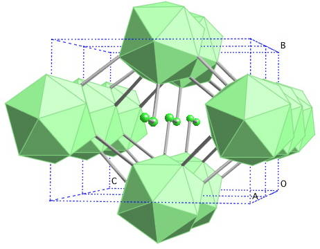 Crystalline structure of gamma-boron